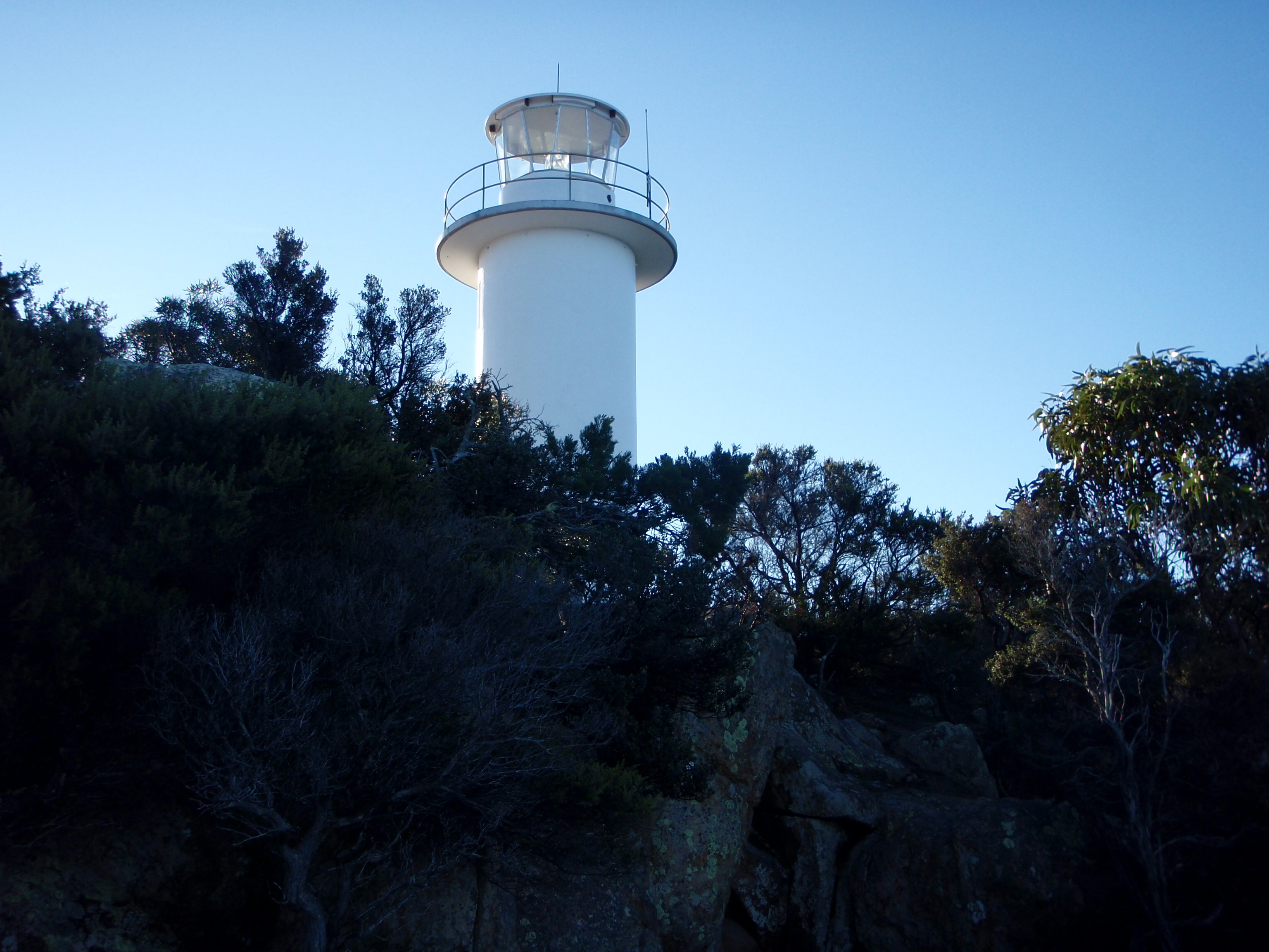 Cape Tourville Lighthouse, Tasmania (within the area of the Freycinet Peninsula.